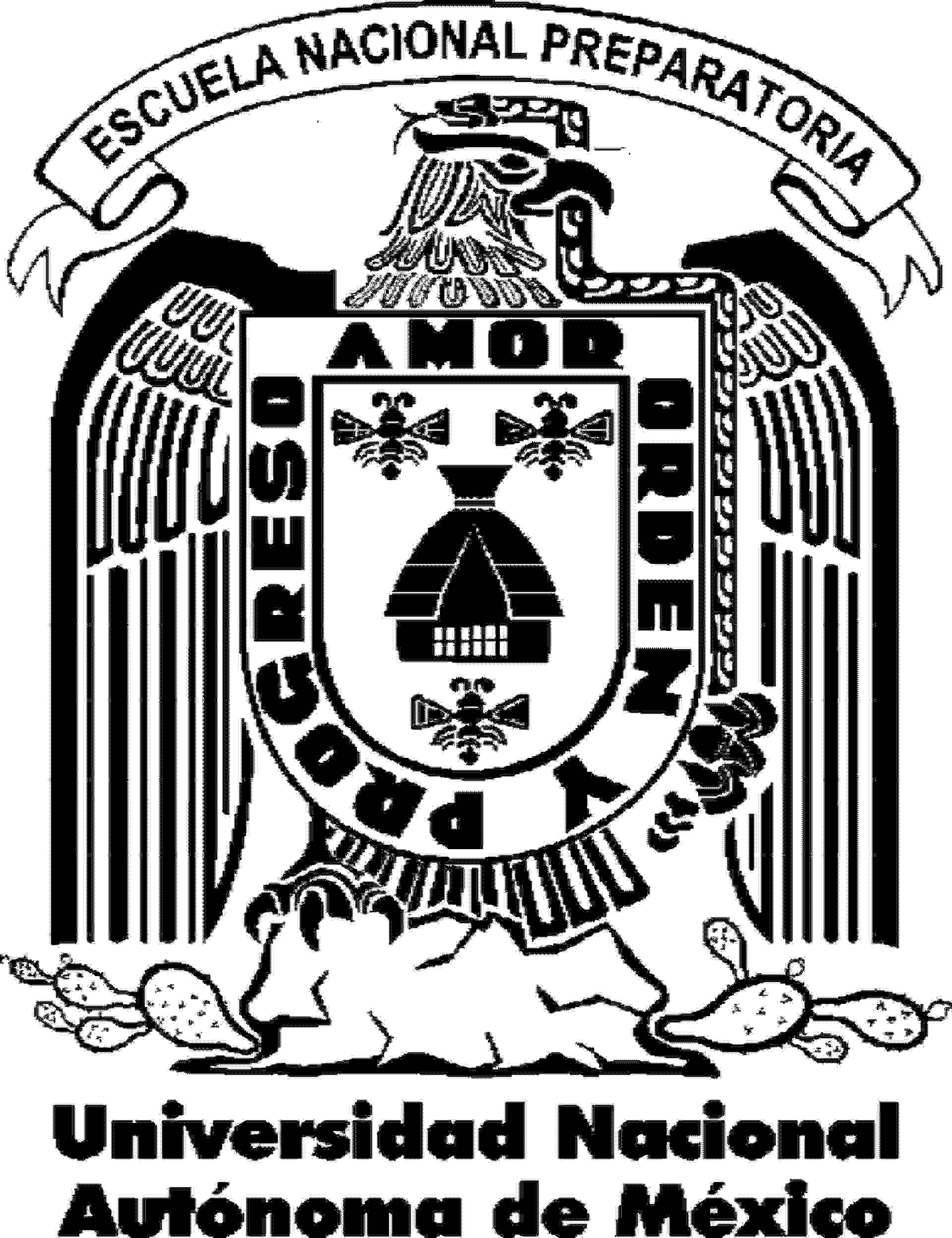 Escuela Nacional Preparatoria Logo